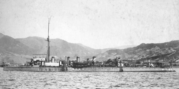 Fumitsuki(I), destroyer of the Imperial Japanese Navy, at Kure Naval Base. (ex-Russian destroyer Silni)